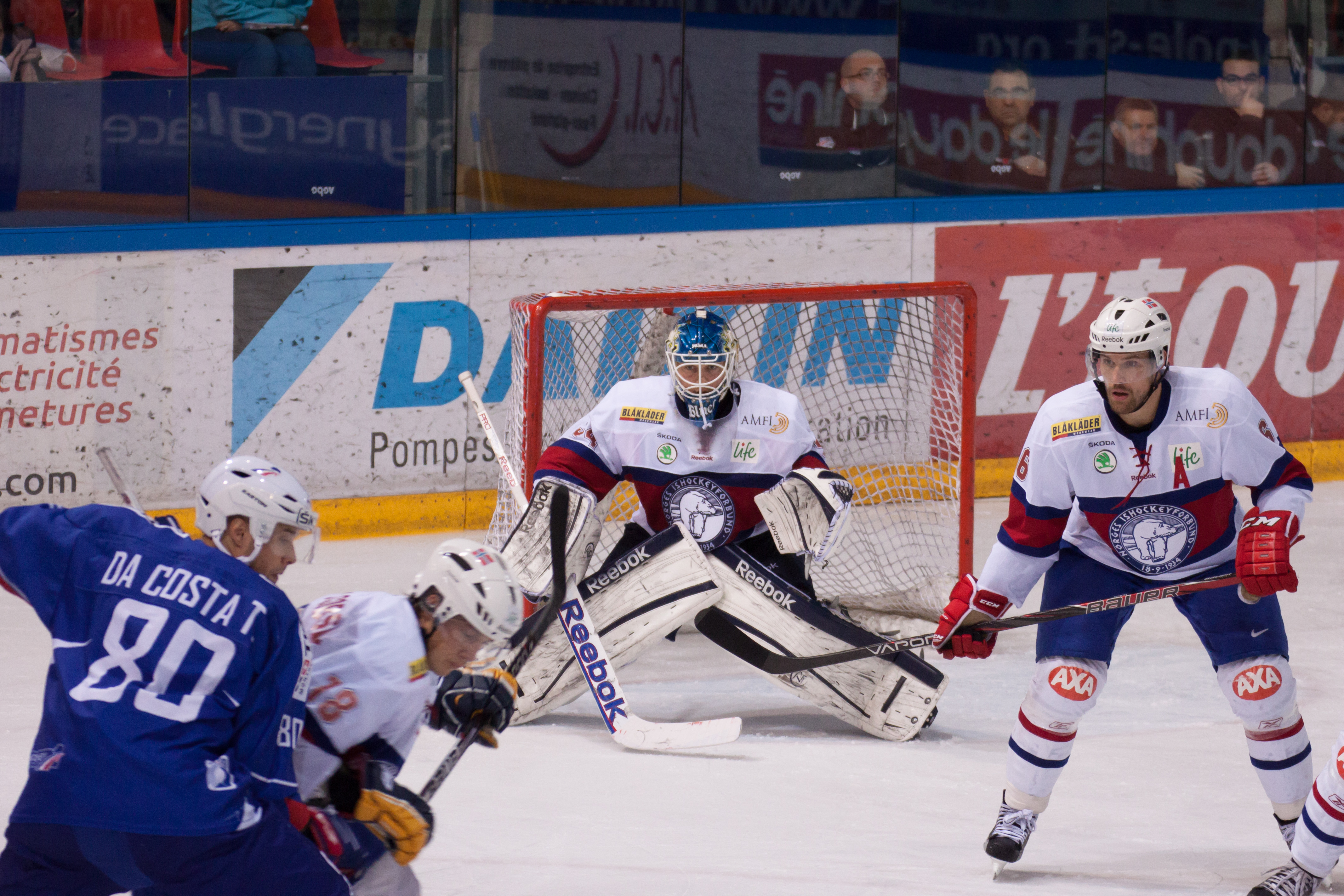 Norway men's national ice hockey team in Grenoble versus the french nation ice hockey team.